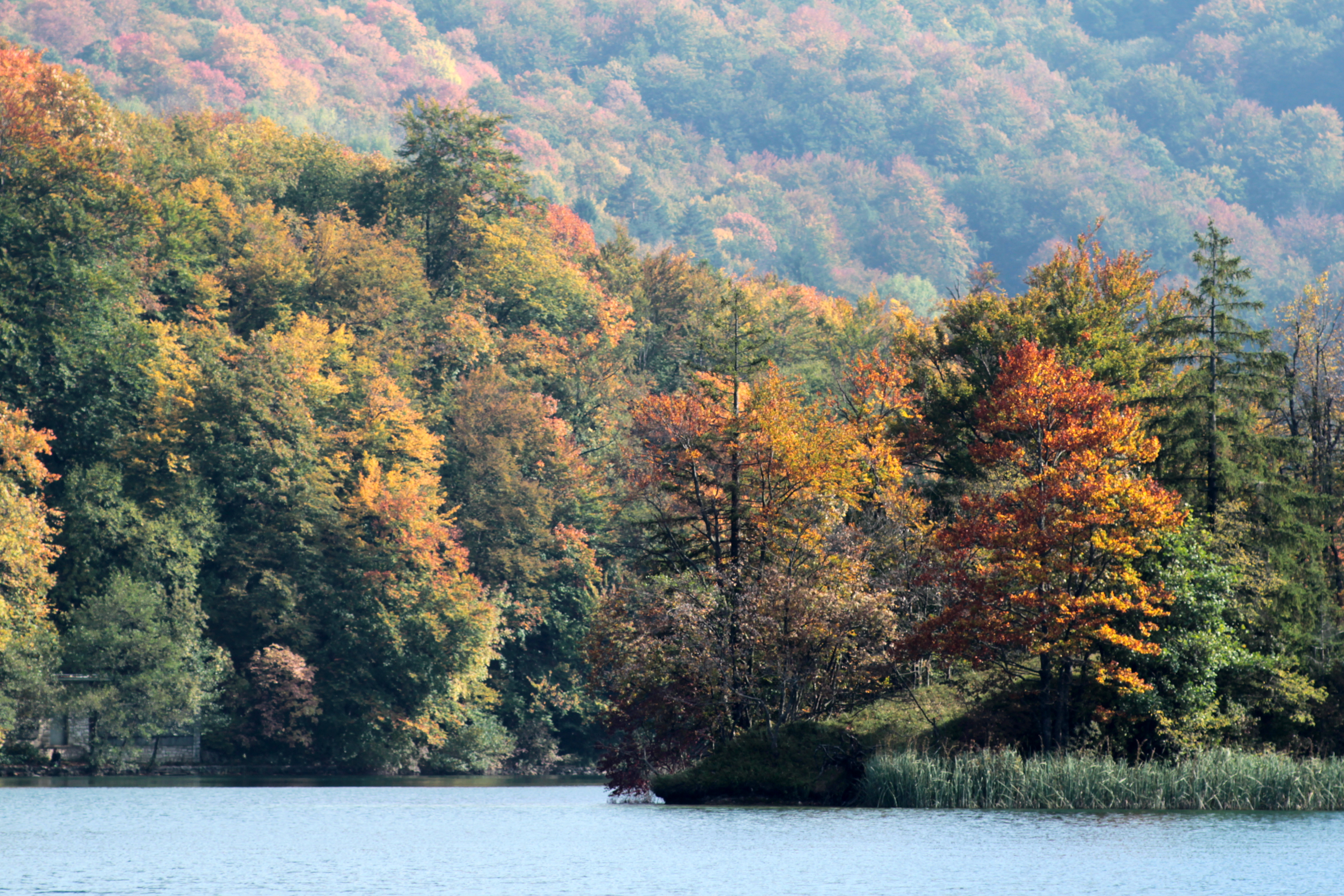 Plitvice.